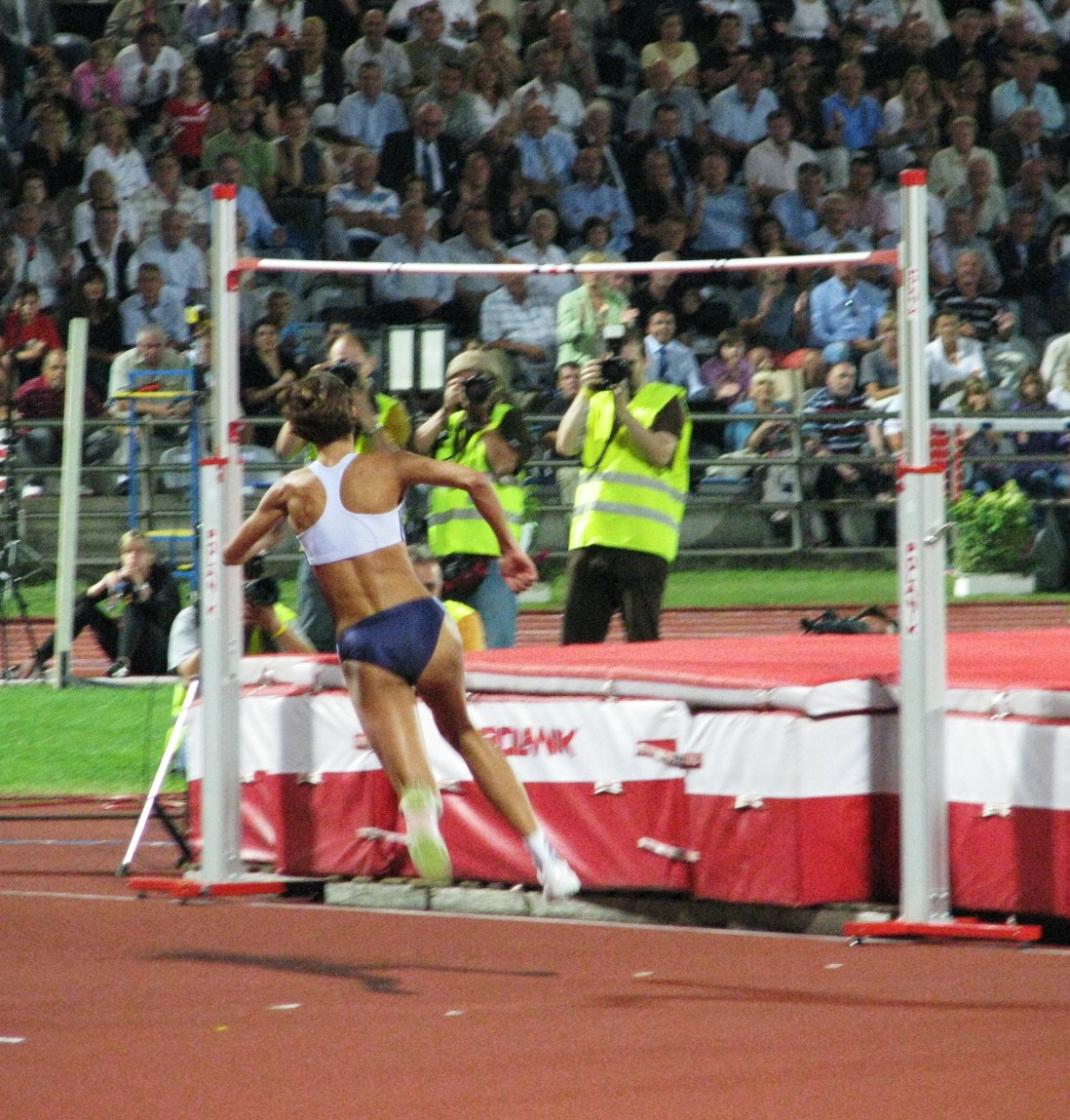 Blanka Vlašić, Hanzekovic Memorial 2009